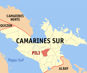 Map of Camarines Sur showing the location of Pili